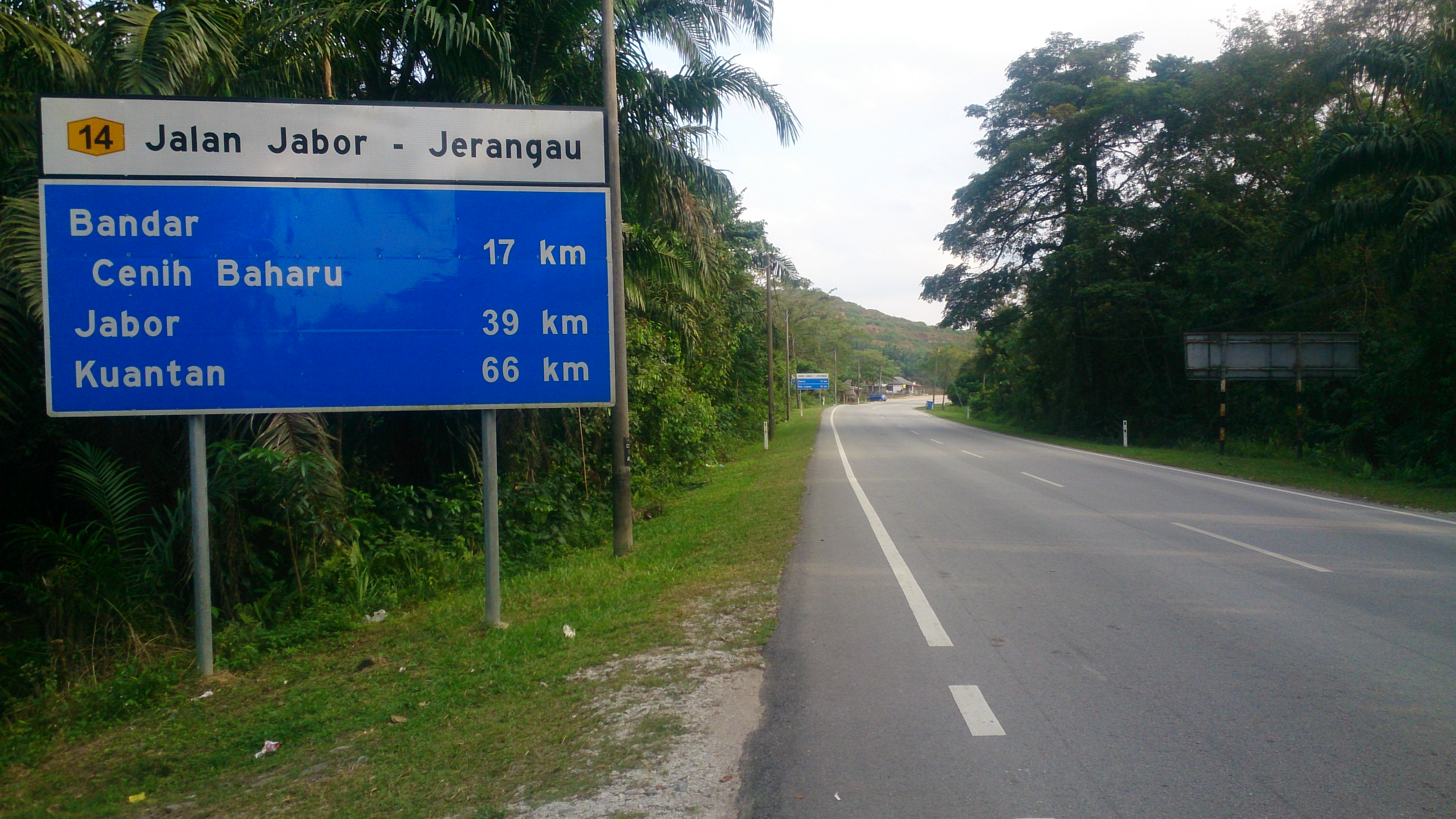 A scenery of the Jerangau-Jabor Highway FT14 near Air Putih, Terengganu, Malaysia.